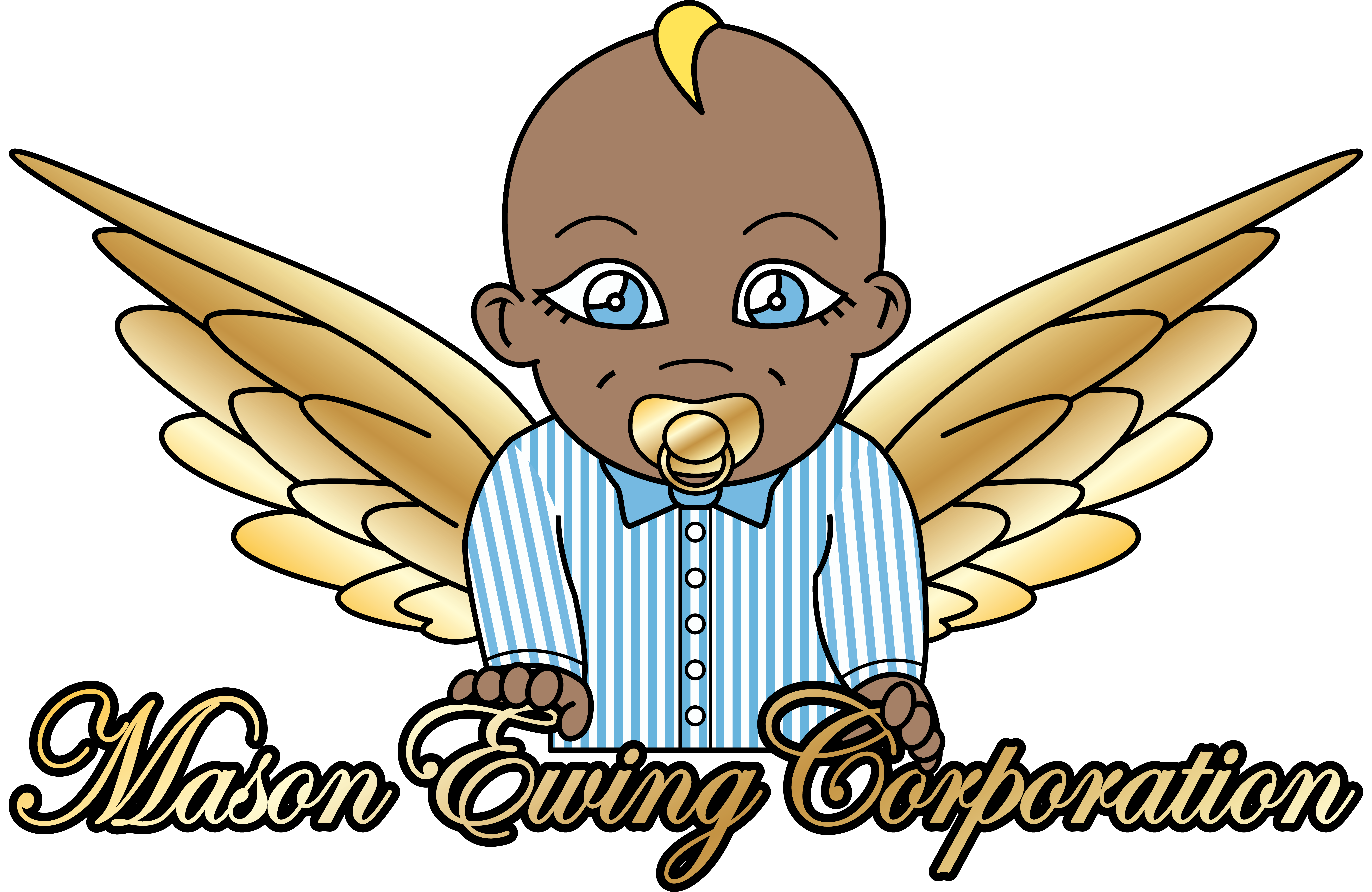 Baby Madison is the Mason Ewing Corp's muse.